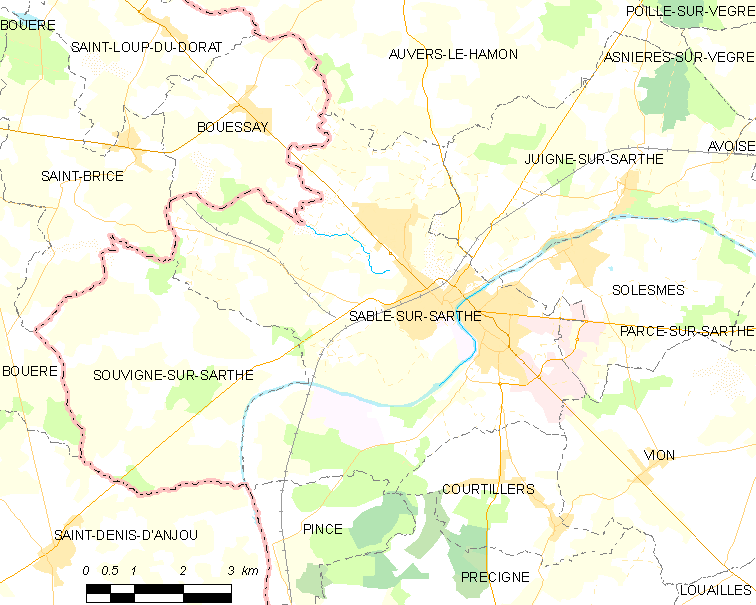 Map of French municipality